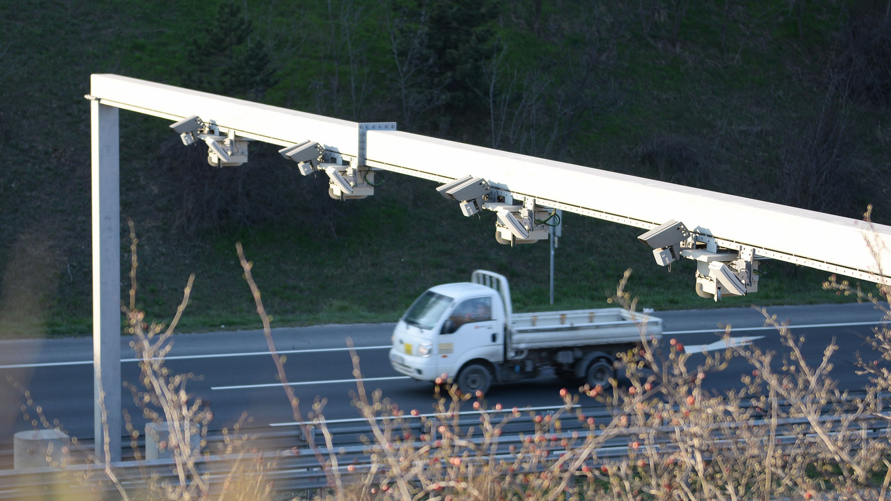 TrafficSpot variable sensing and monitoring system installed on a single, fixed detection point for vehicle traffic surveillance and data gathering.